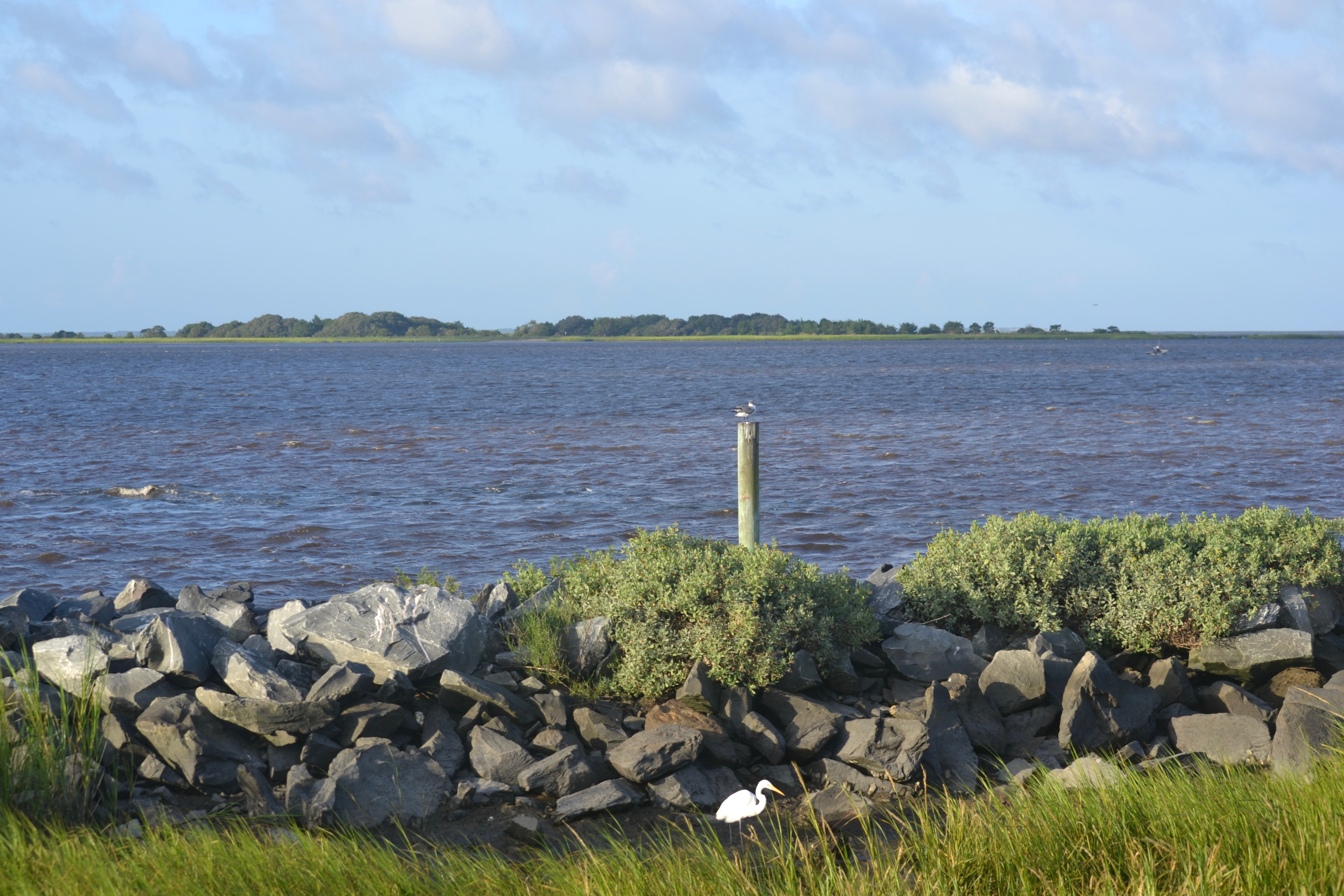 The Basin in front of Zekes Island